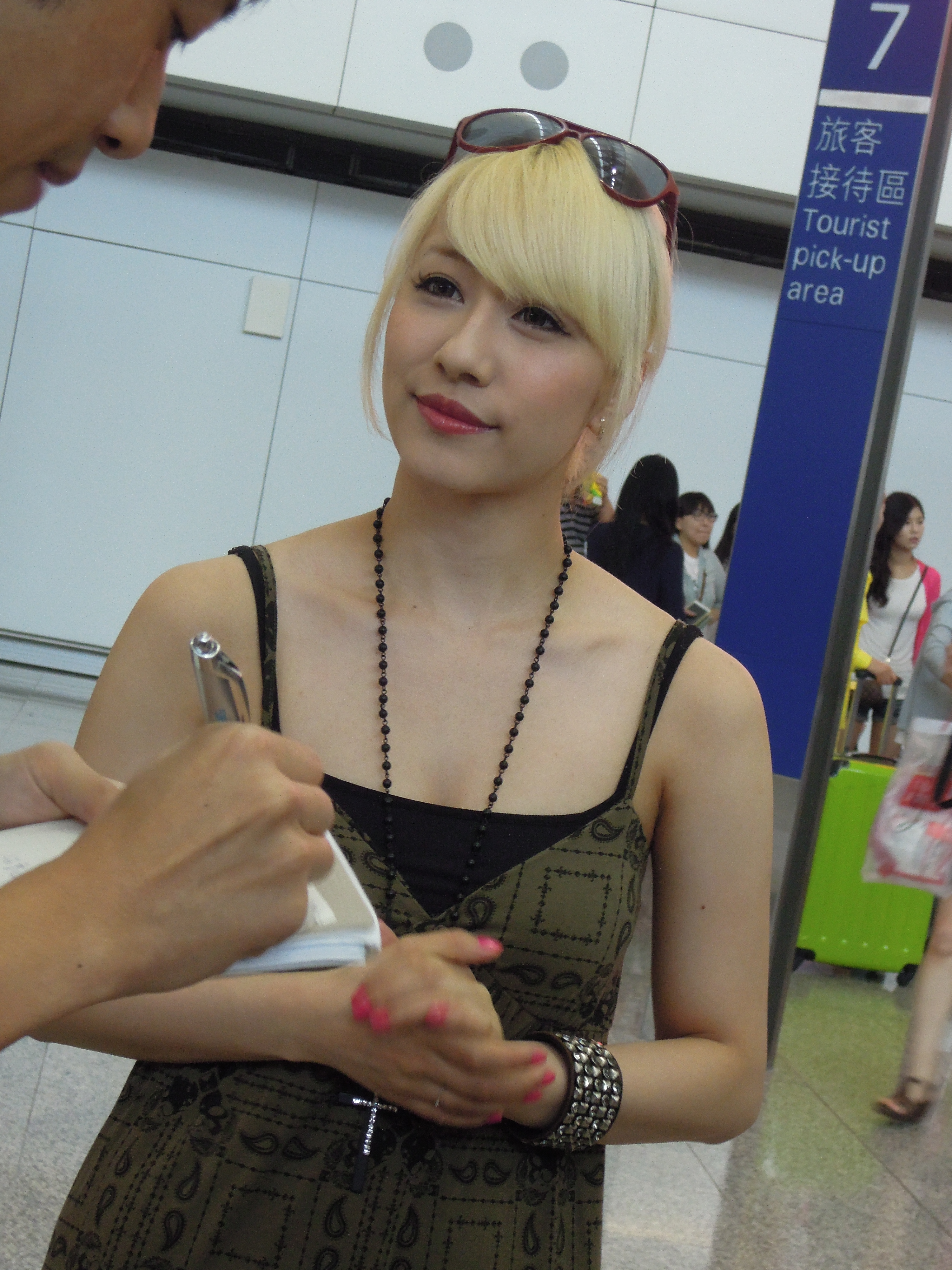 Nami in HK